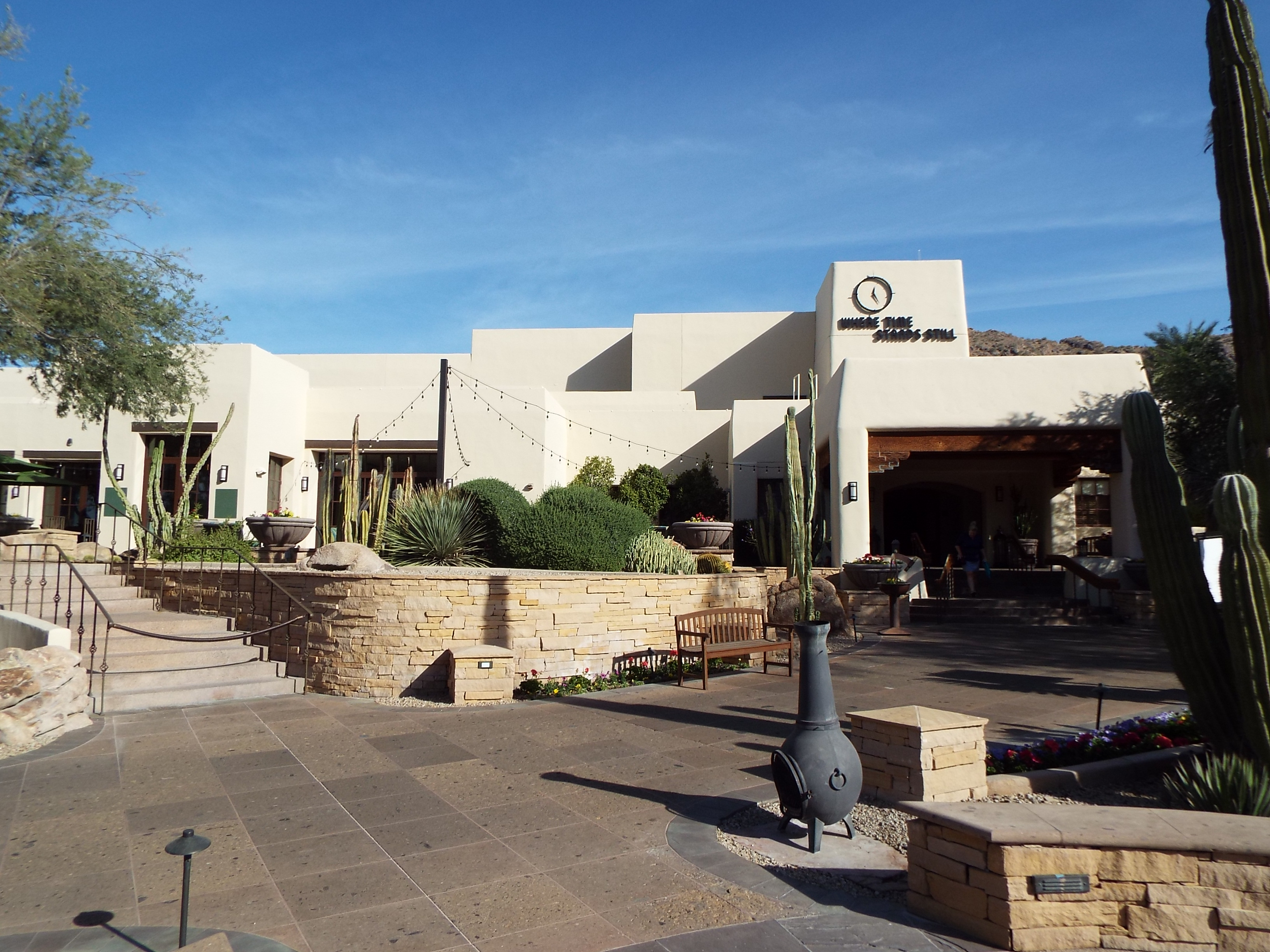 Camelback Inn built in 1936 and located at 5402 East Lincoln Drive in Scottsdale, Az.